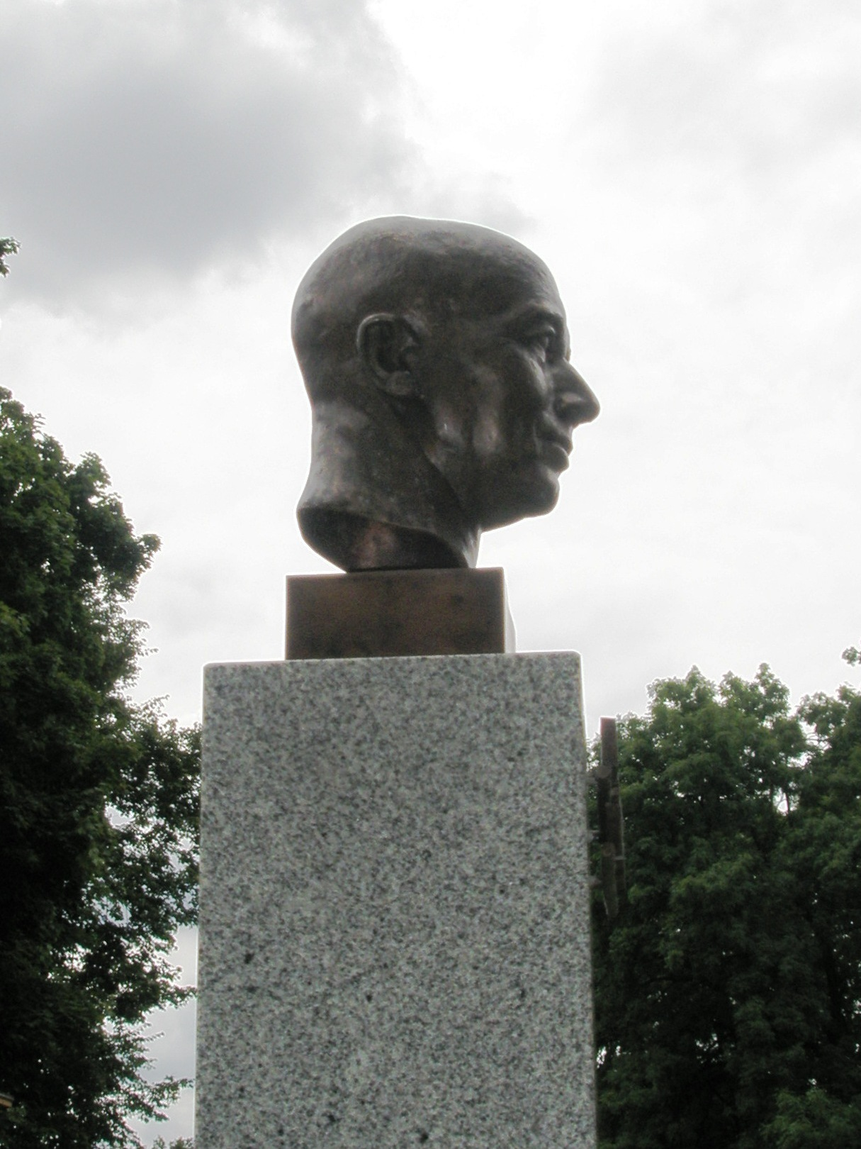 The bust of Victor Bauer von Rohrfelden (1876–1939) in château garden in Kunín